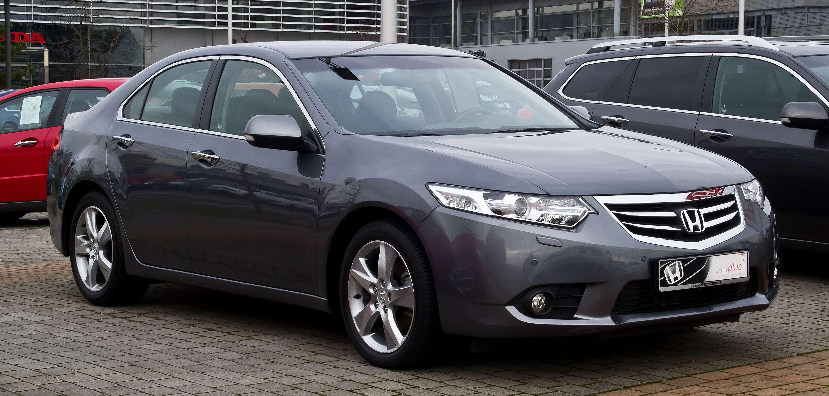 Honda Accord 2.2 i-DTEC Lifestyle (VIII, Facelift)